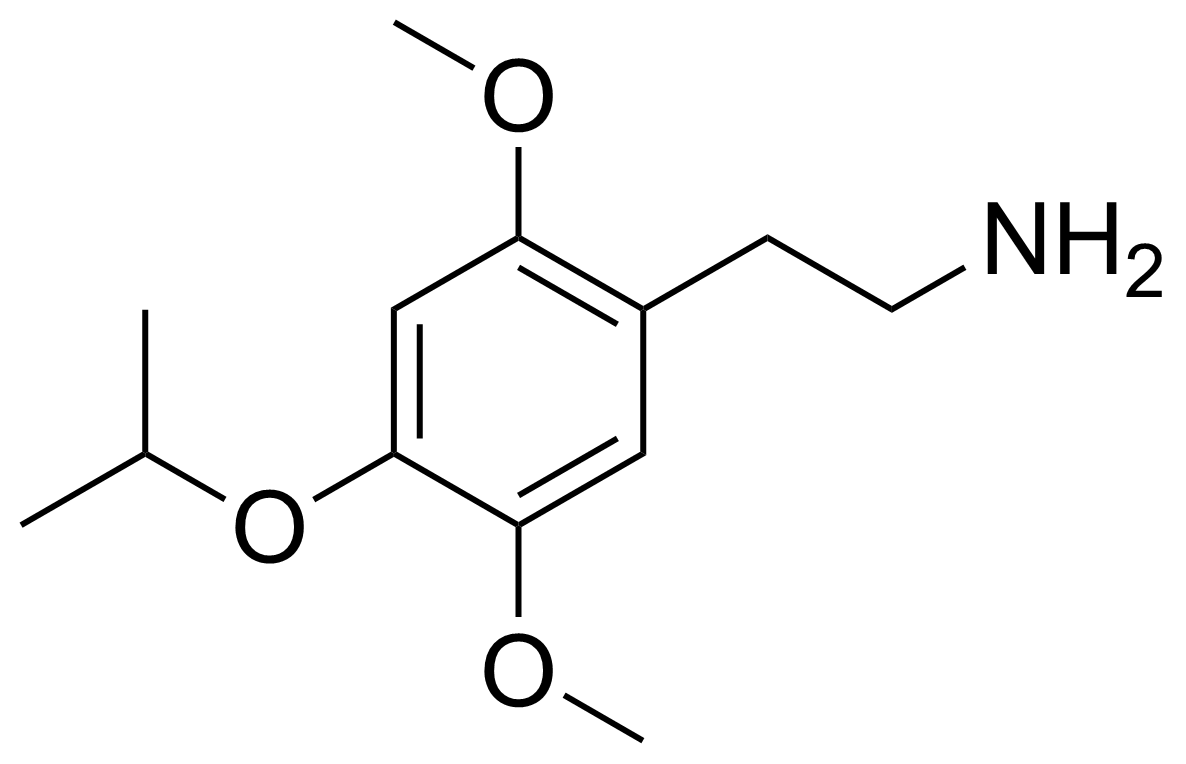 Chemical structure of 2C-O-4-Chemdraw